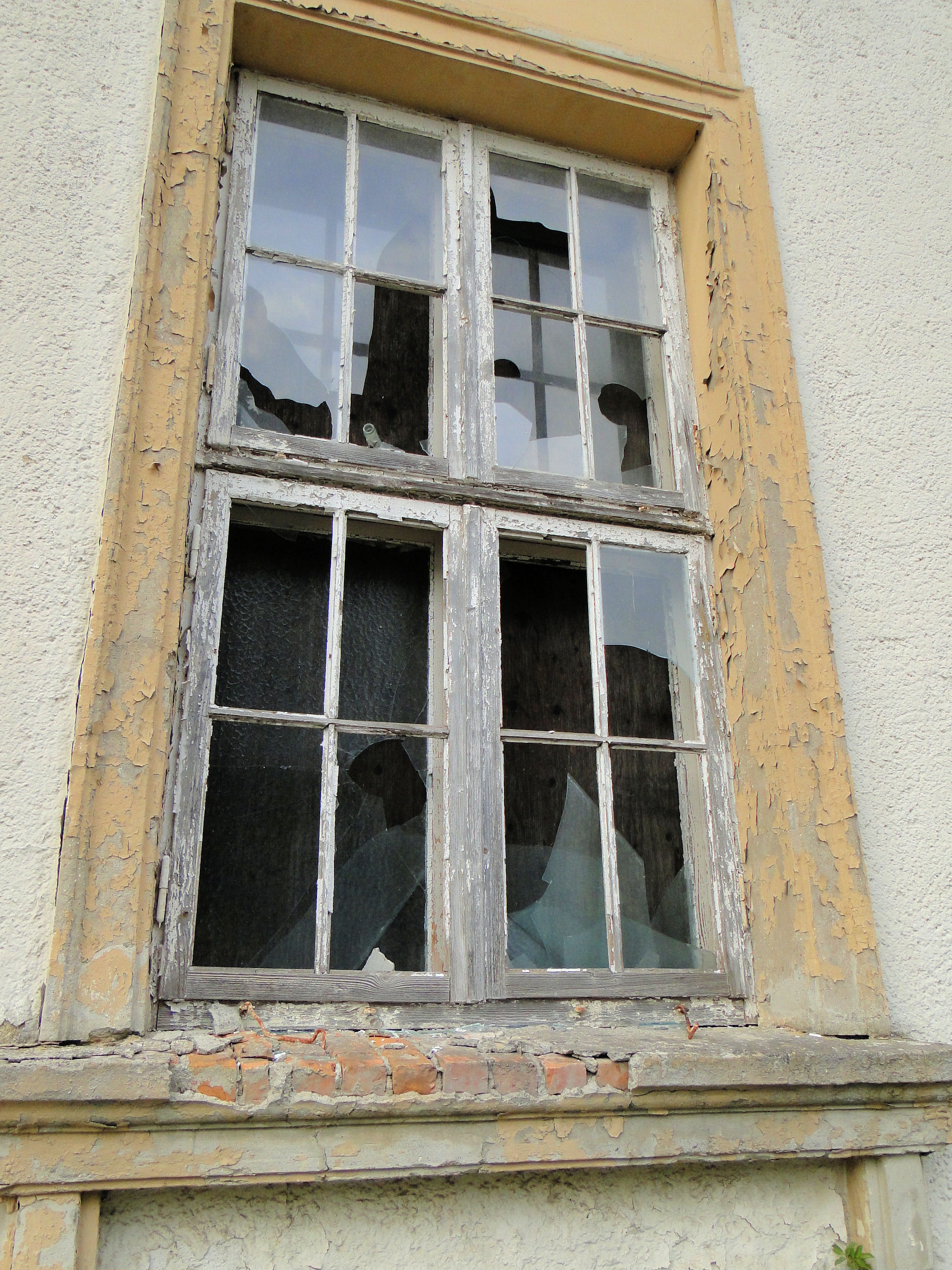 House of culture (community centre) in Mestlin, district Ludwigslust-Parchim, Mecklenburg-Vorpommern, Germany